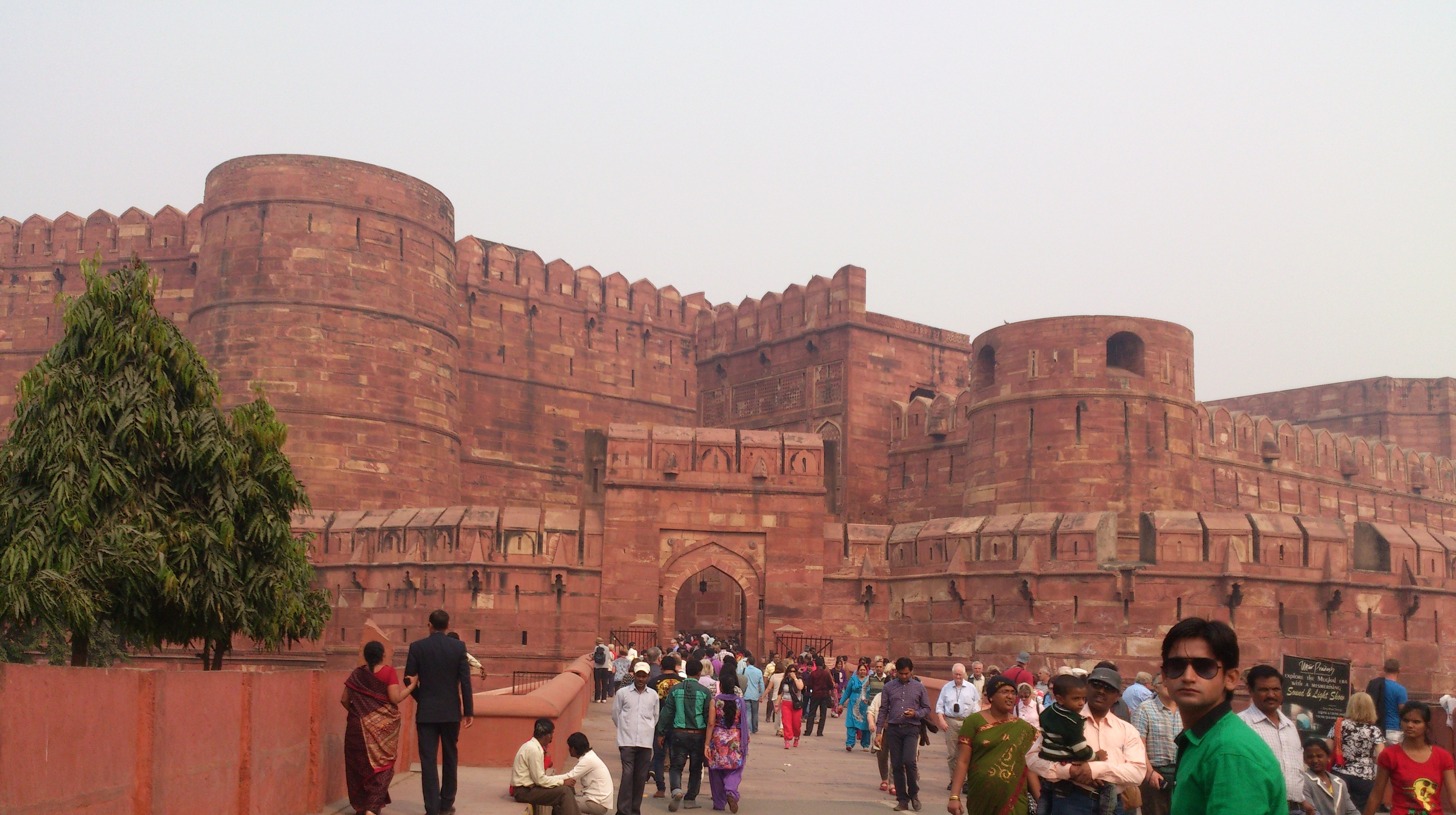 Agra Fort Entrance Gate